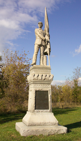 125th Pennsylvania Infantry Monument, Antietam National Battlefield. Color Sergeant George A. Simpson, Killed at Antietam, 125th Pennsylvania, Volunteer Infantry, 1st Brigade 1st Division, 12th Corps, Recruited in Blair, Huntingdon and Cambria Counties, Penna. Dedicated: September 17, 1904